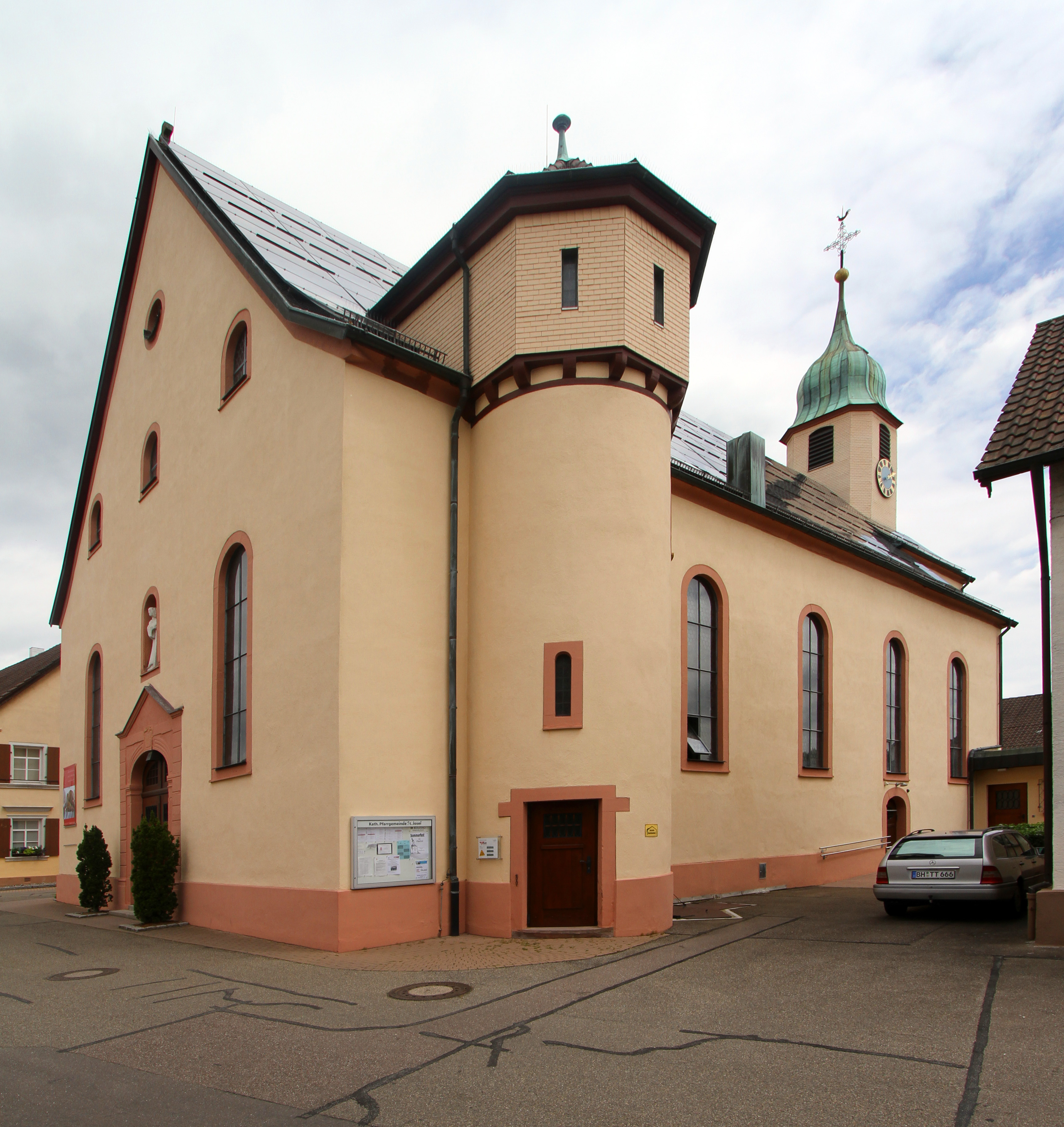 Church of St. Josef in Achern-Önsbach.